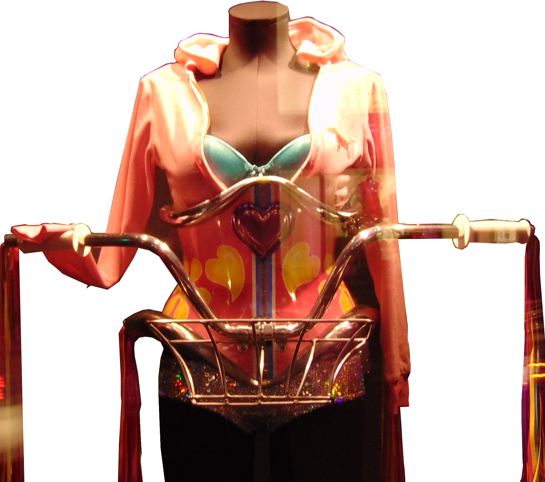 The controversial bike used during the "Pink Ball" by Victoria's Secret.